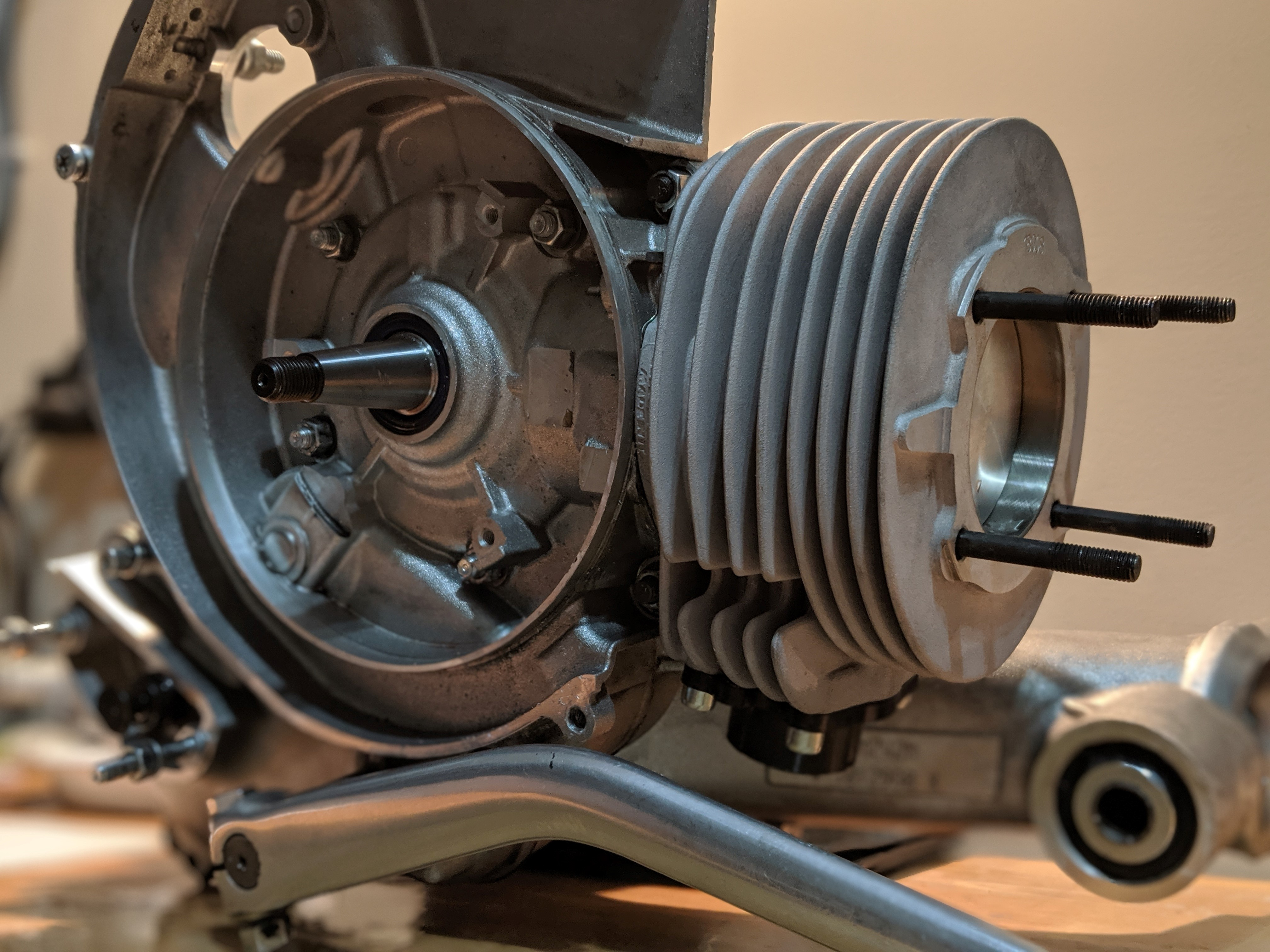 Vespa PX150 engine being upgraded with 177cc Malossi Alloy Kit